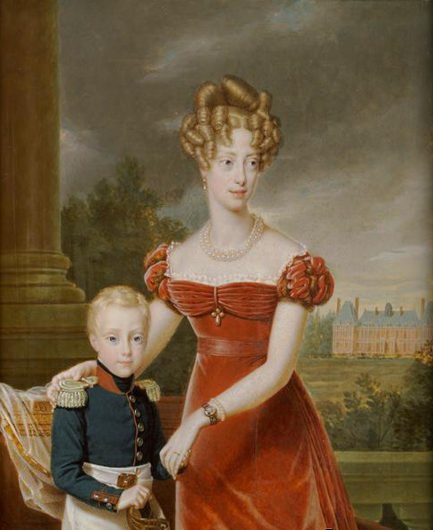 Carolina, Duchess of Berry and her son the Duke of Bordeaux